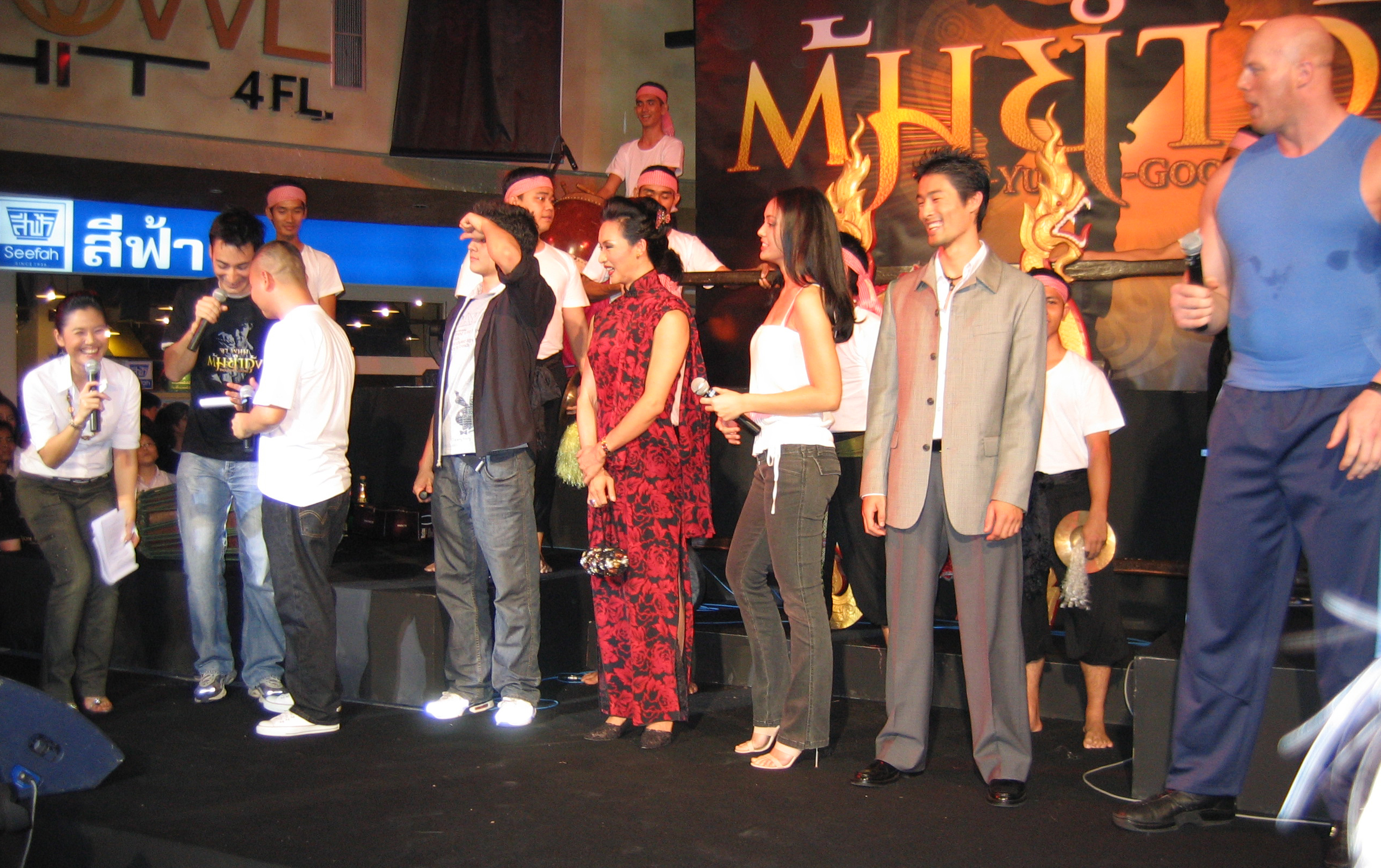 Cast members from Tom-Yum-Goong at the press preview of the film. They include, from left, David Asavanond, Petchtai Wongkamlao (back to camera), Jonathan Foo (hand over eyes), Xing Jing, Bongkoj Khongmalai, Johnny Nguyen and Nathan Jones.